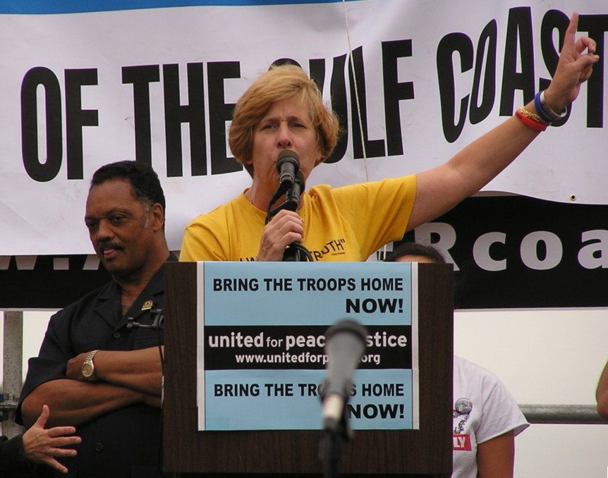 Cindy Sheehan leading the crowd in cheering "Not one more!"